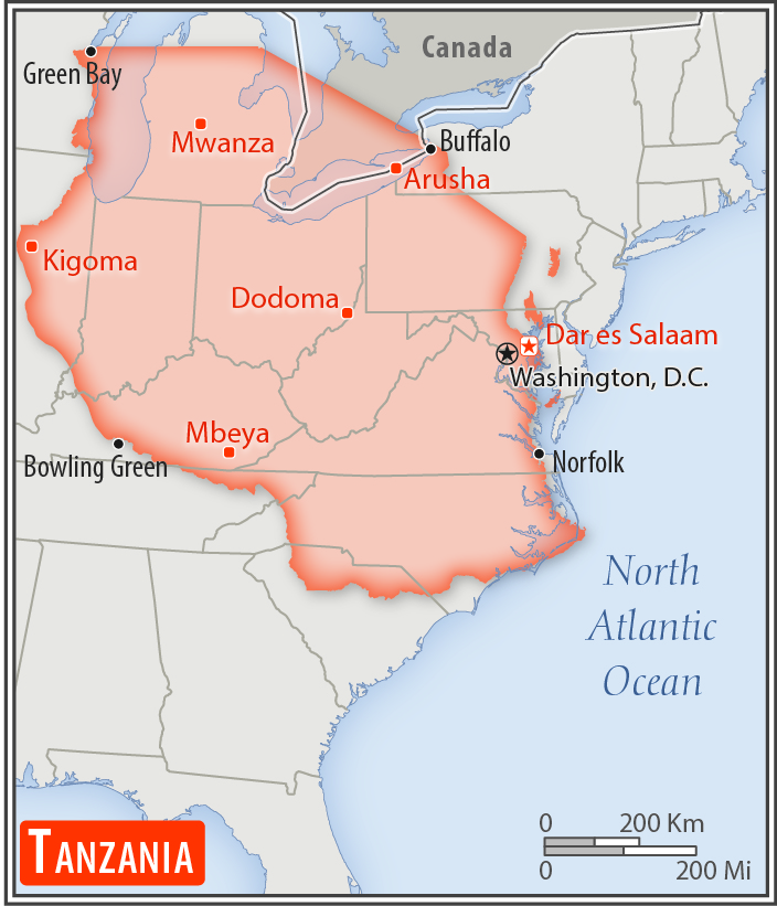 Comparison of the areas of two country. The area of Tanzania with biggest cities (red) overlay the area of the United States of America (gray background).